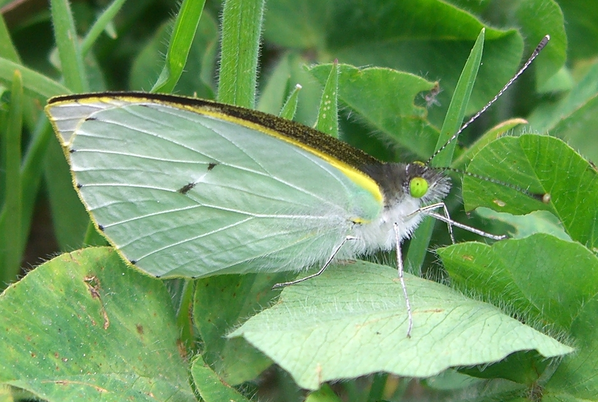 Please report references to .